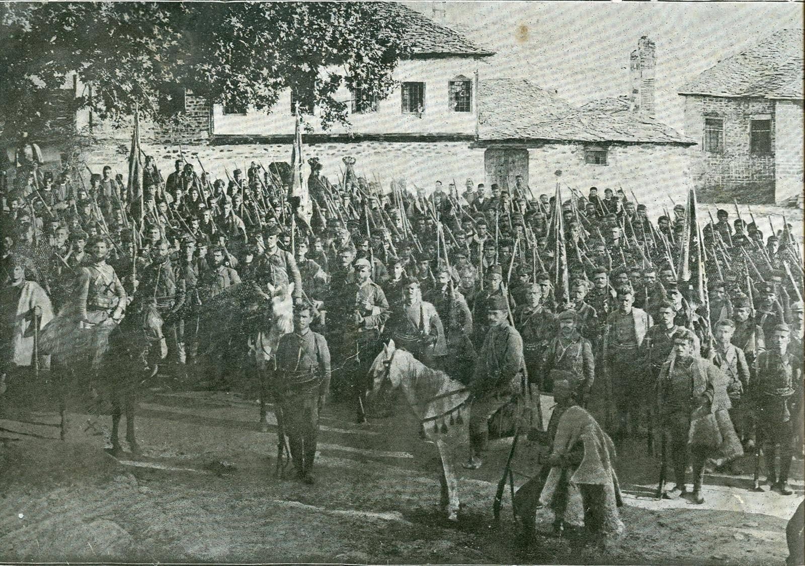 Chetas of Vasil Chekalarov, Ivan Popov, Pando Kliashev, Nikola Andreev and Manol Rozov in Klisura, Kastoria.